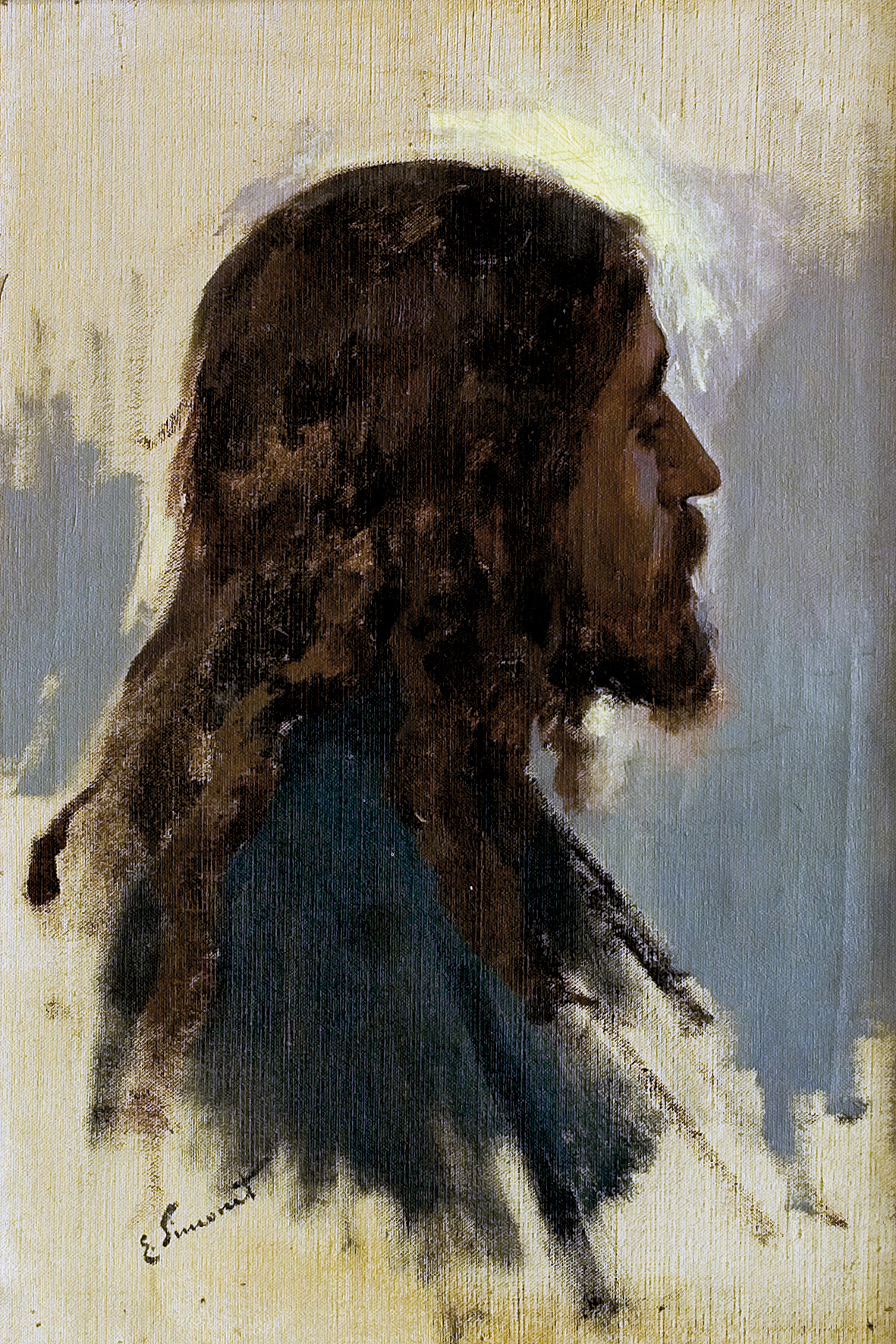 Preliminary study of Jesus image for the painting Flevit super illam.